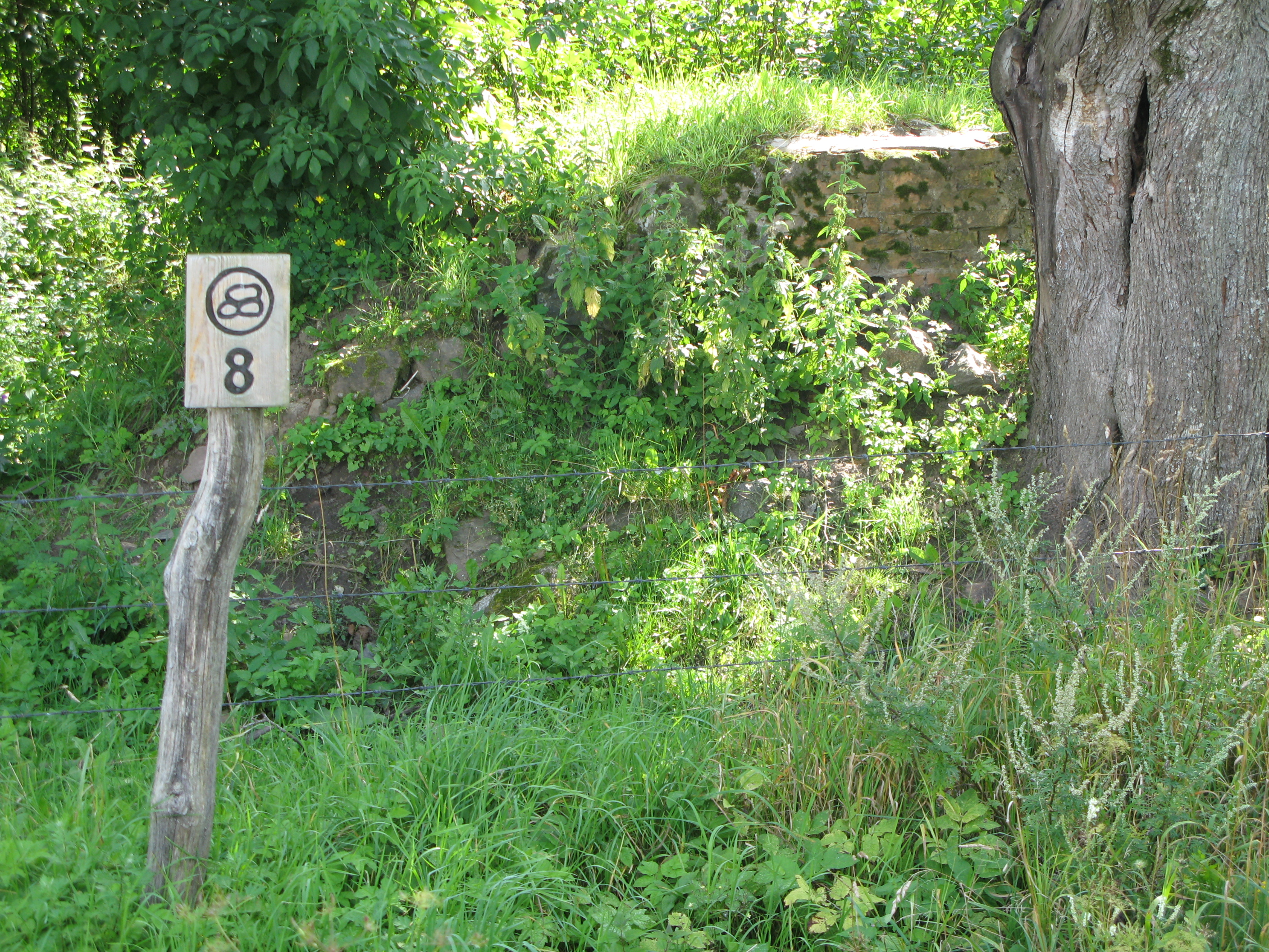 Ruins of the destructed town of Golubie, Poland, Suwalki region